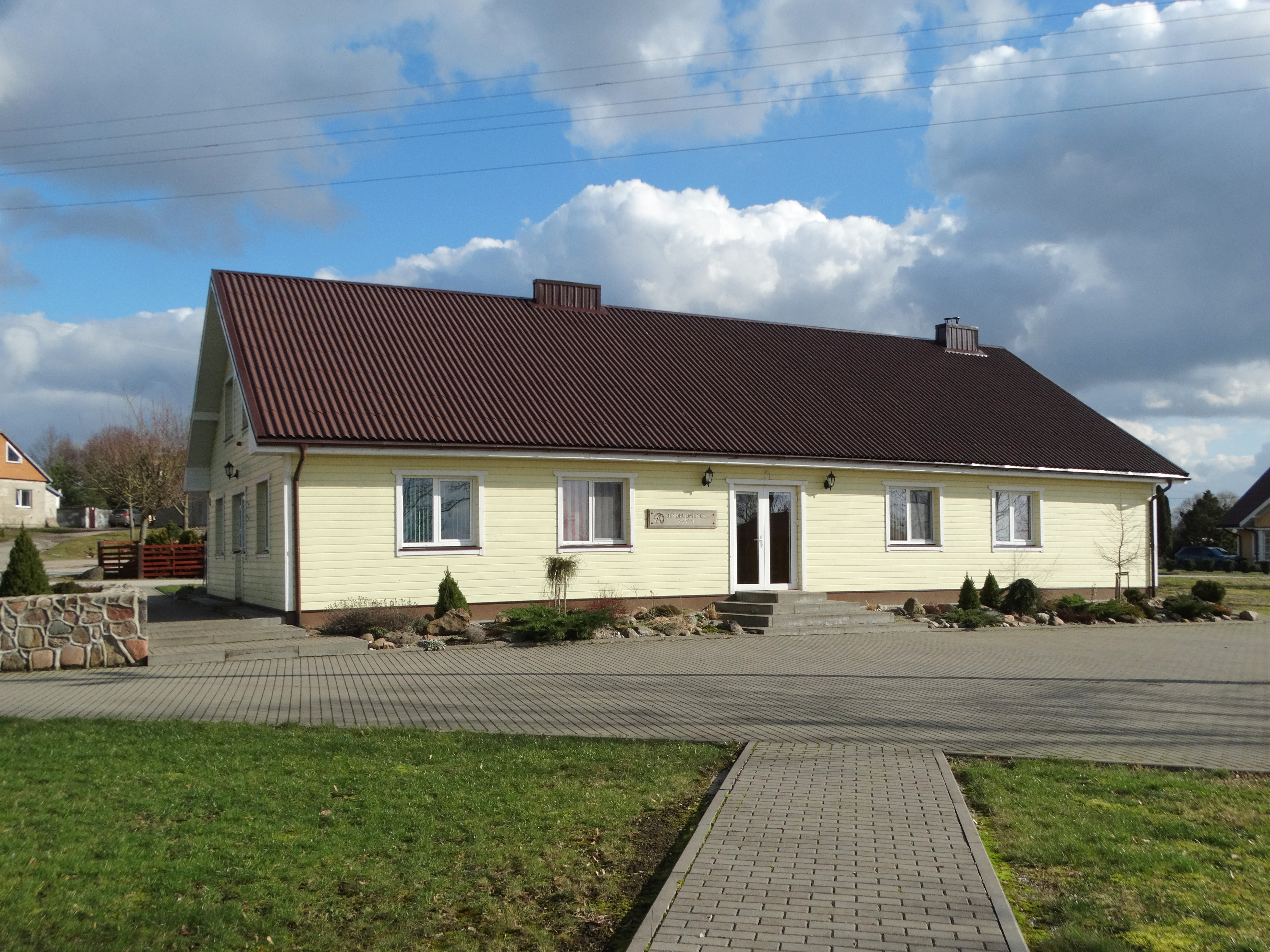 Community house, Judrėnai, Klaipėda District. Lithuania